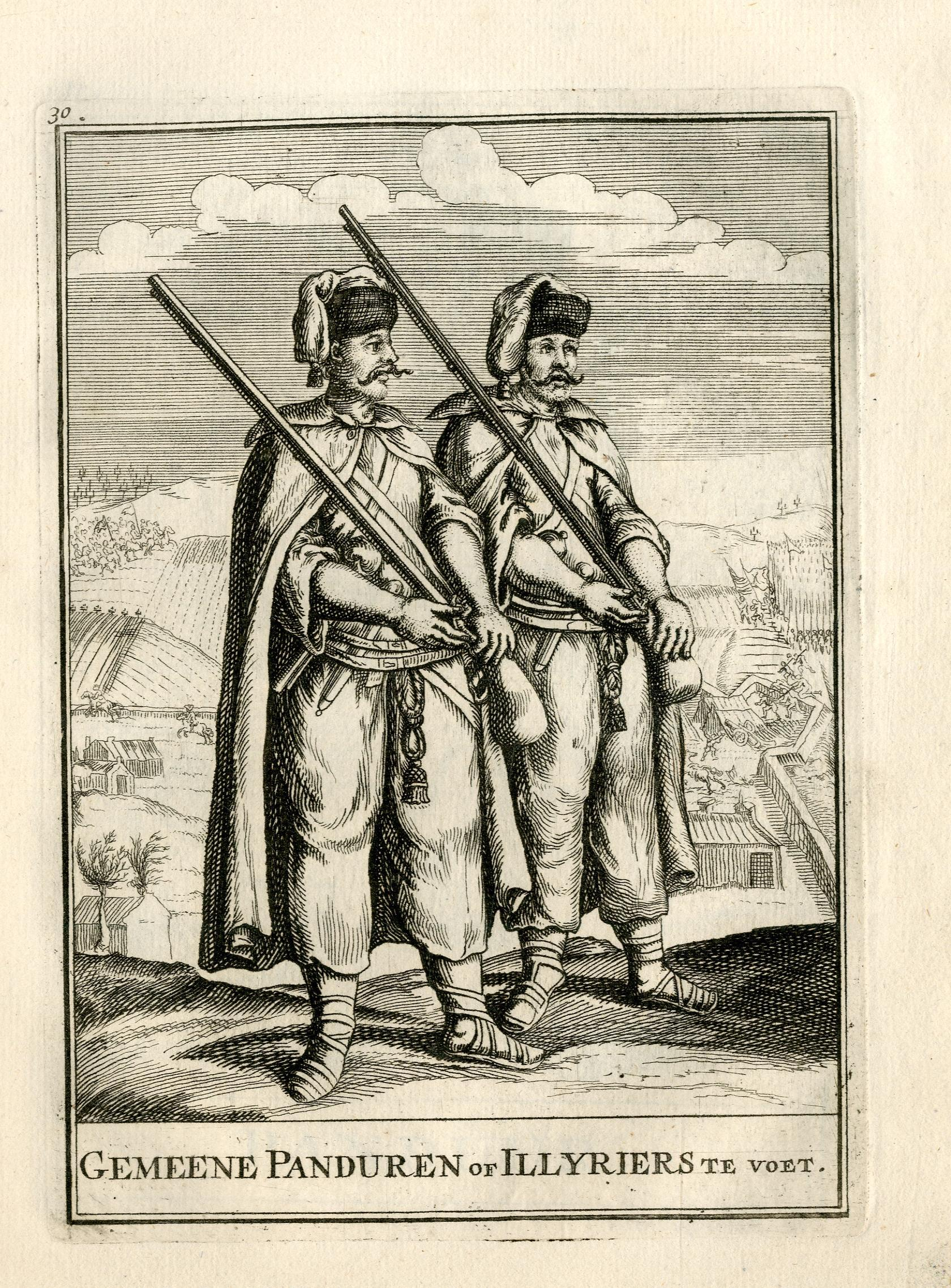 Illustration